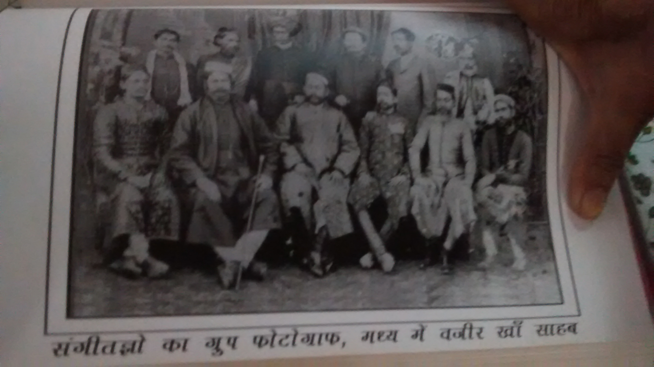 Descendant of Naubat Khan,Musician of Haid Ali Khan of Rampur's court